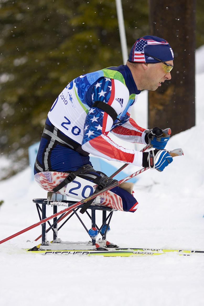 Andy Soule missed the medal stand Wednesday by just more than a minute in the men's 12.5km on the final day of the biathlon competition at Whistler. As the only competitor to shoot four perfect rounds of five shots each, Soule could not catch the Russians in the final lap and finished 1:15.2 outside of third place. "I'm happy with my shooting," said Soule, who clocked a time of 44:26.2. "I shot clean -- 20 for 20 shots. I just didn't ski fast enough to make the top three. This field is incredible." Soule, who has been training in biathlon since 2005, won a bronze medal Saturday in the 1.49-mile event. He is the first American in history to win a medal in biathlon. A roadside bomb claimed both of his legs above the knee during a deployment to Afghanistan. Russia dominated the field of 21 competitors, taking the top three podium spots. Irek Zaripov posted the fastest time of 42:22.4 for the gold medal -- his third of the 2010 Paralympic Winter Games.